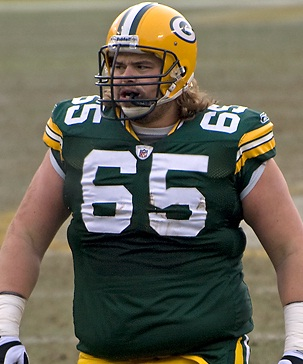 Seattle vs. Green Bay • December 27, 2009 at Lambeau Field in Green Bay, Wisconsin.